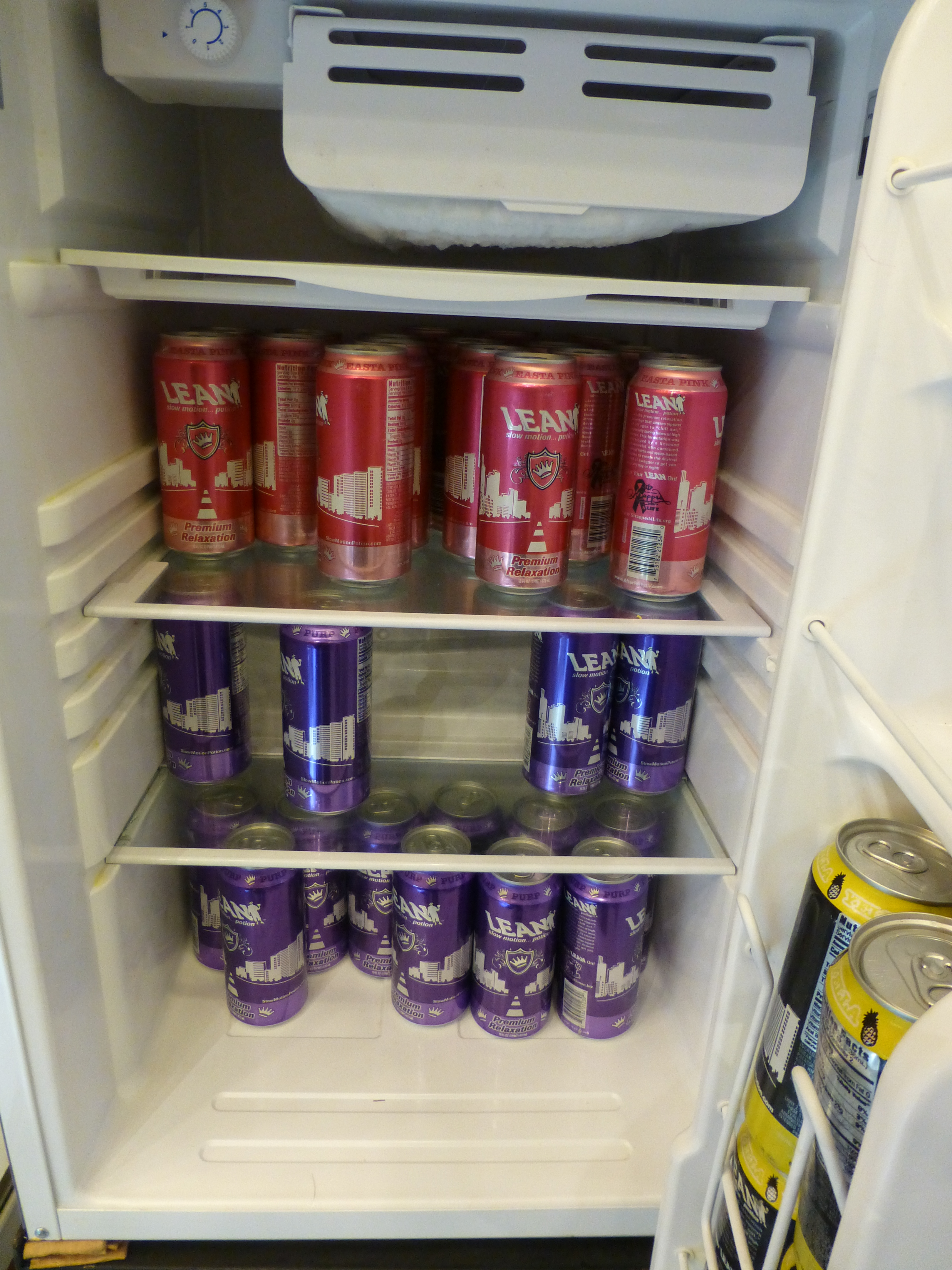 Fridge with relaxation drinks of "Lean" brand, found in Trincity Mall, Trincity, Trinidad.